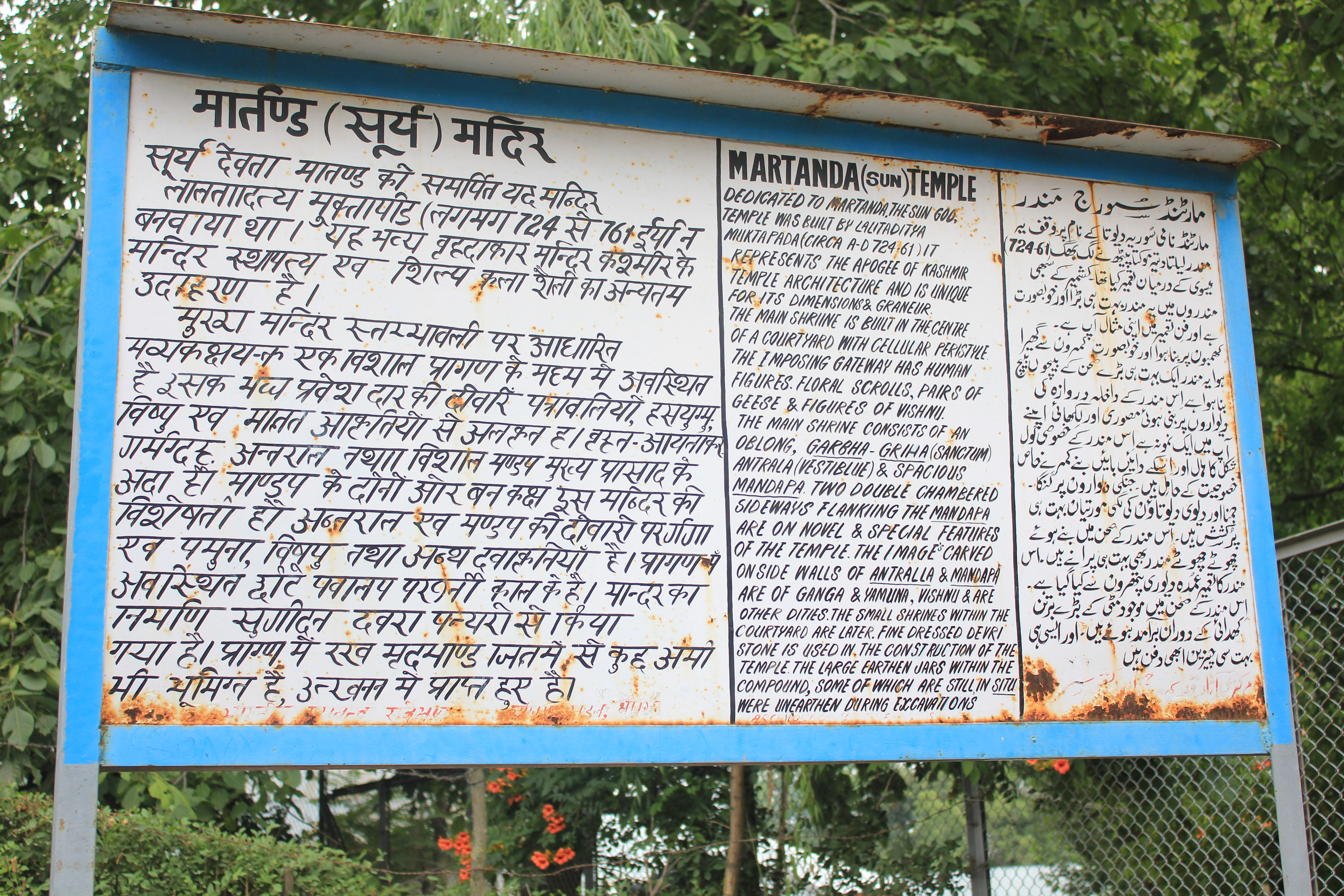 A sign put by the Archaeological Survey of India describing the history and the architecture of the Martand Temple ruins in three languages- Hindi, English and Urdu. Photo captured on July 30, 2011 using Canon 550D camera.